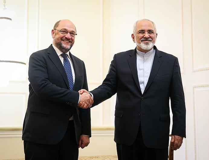 Iranian Foreign Minister Mohammad Javad Zarif meeting with European Parliament president Martin Schulz